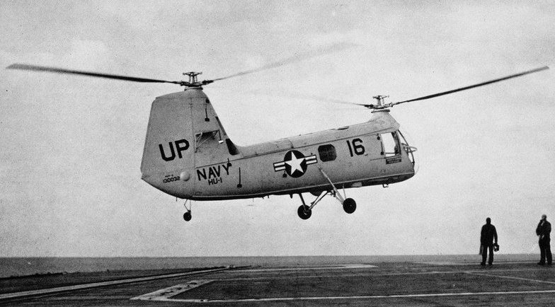 A U.S. Navy Piasecki HUP-2 Retriever (BuNo 130036) of Helicopter Utility Squadron HU-1 Det.A "Pacific Fleet Angels" landing aboard the aircraft carrier USS Shangri-La (CVA-38). HU-1 Det.A was assigned to the Shangri-La for a deployment to the Western Pacific from 13 November 1956 to 20 May 1957.